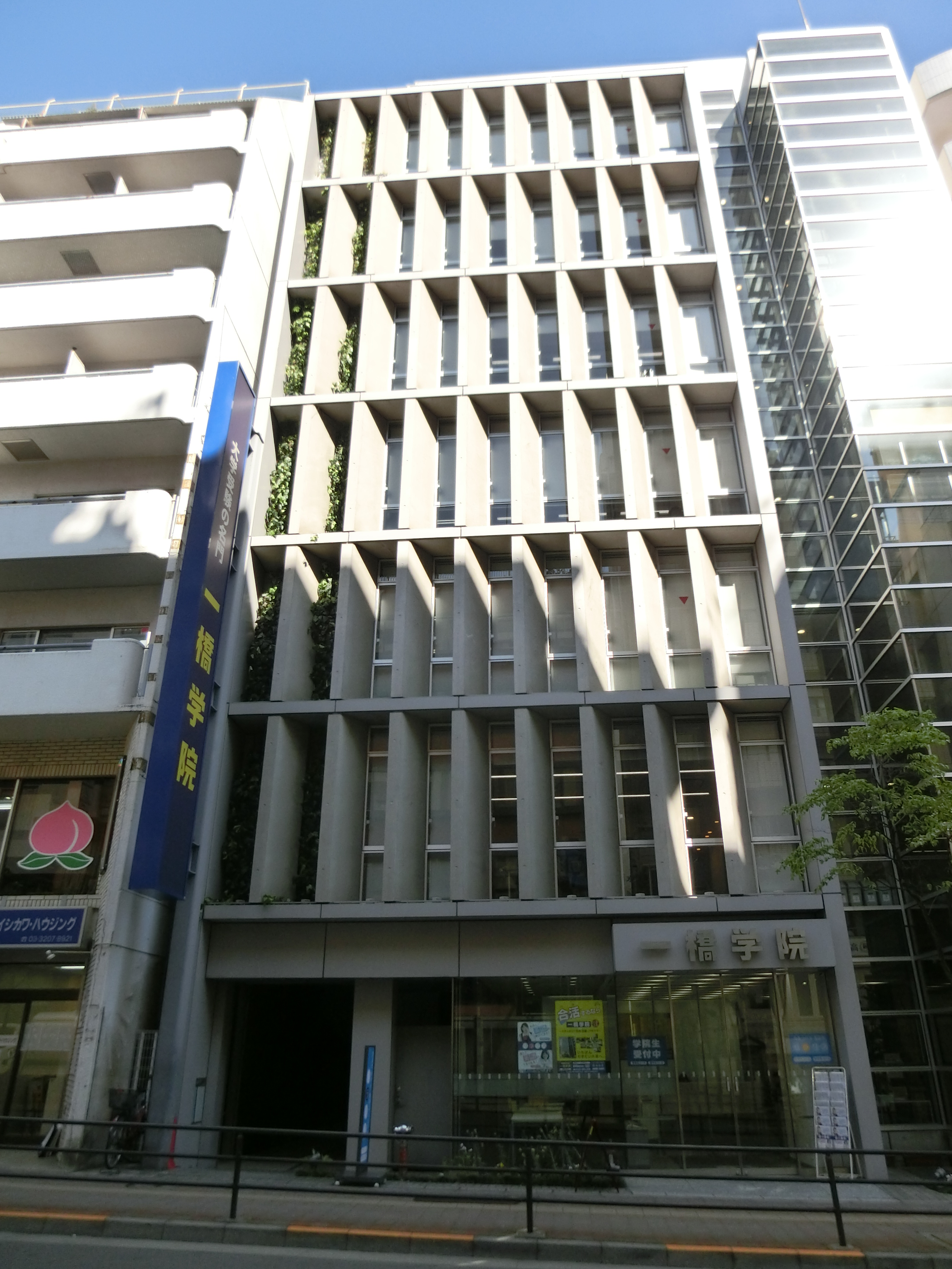 Hitotsubashi Gakuin